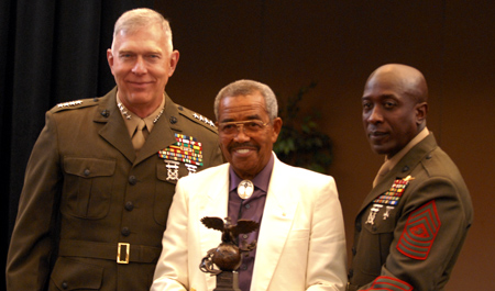 Former Olympic track & field medalist Joshua Culbreath, pictured here with the Commandant of the Marine Corps General James T. Conway (left) and Sergeant Major of the Marine Corps Carlton W. Kent, accepts his induction into the Marine Corps Sports Hall of Fame at MCB Quantico on July 18, 2008.